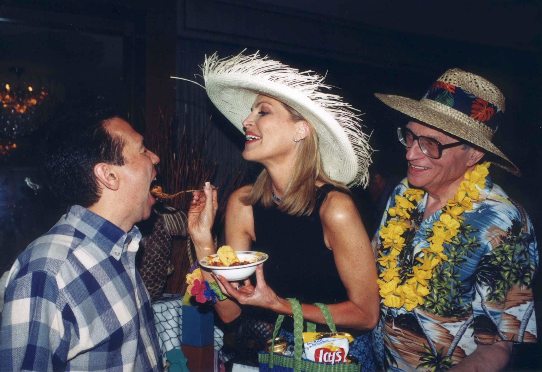 June 4, 1999 GILBERT GOTTFRIED LARRY KING AND WIFE Shawn Southwick WASHINGTON DC